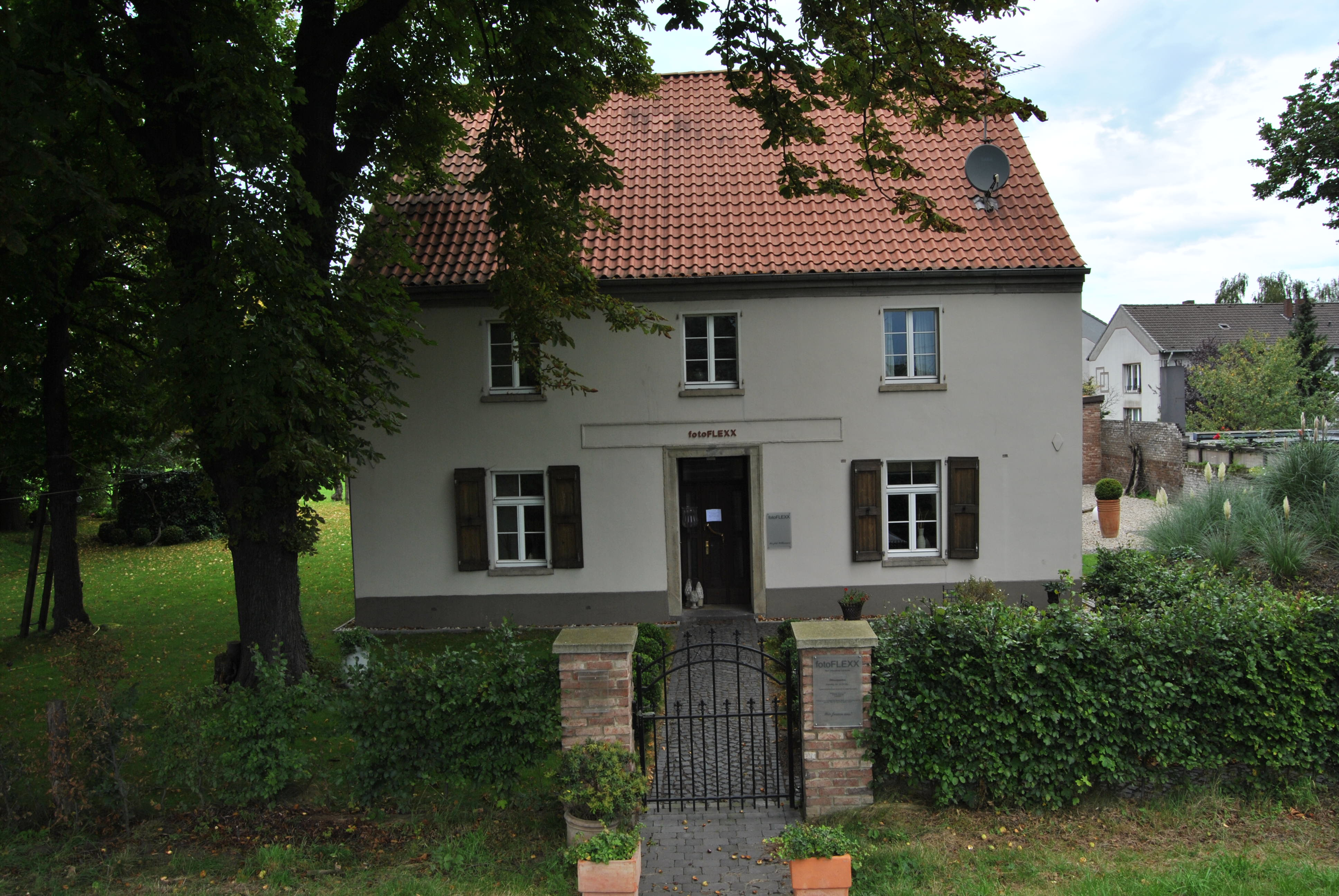 German Cultural Heritage Day – Duisburg (North Rhine-Westphalia, Germany) – district Friemersheim – street Am Damm, no. 10 This photograph was taken with a Nikon D3000 This image shows a heritage building in Germany, located in the North Rhine-Westphalian city Duisburg (no. ZA86).